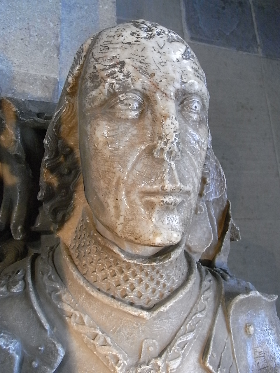 Detail of the effigy of Sir David Mathew (died 1484) in the north aisle of Llandaff Cathedral, Wales